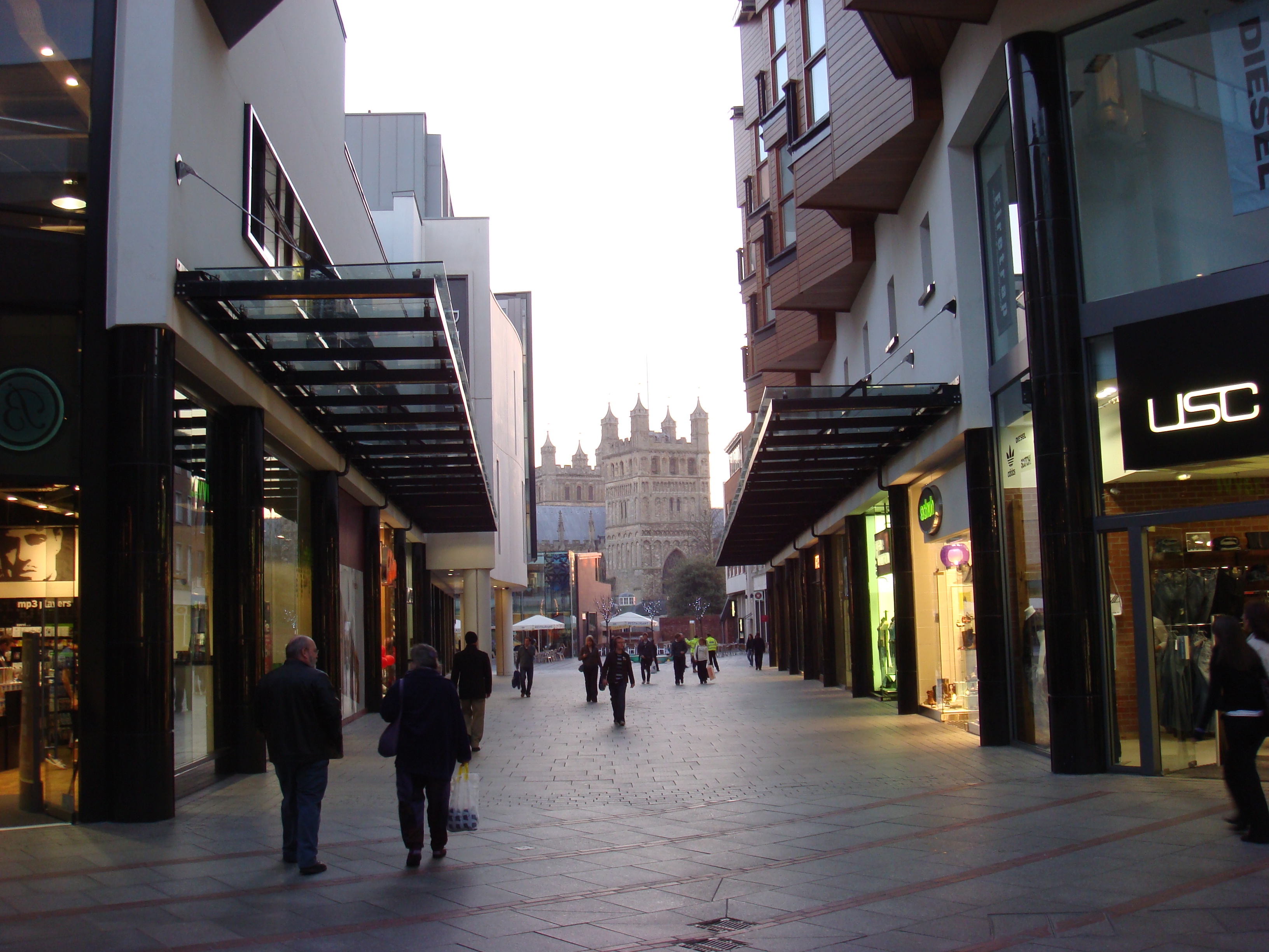 Cathedral from Princesshay, Exeter